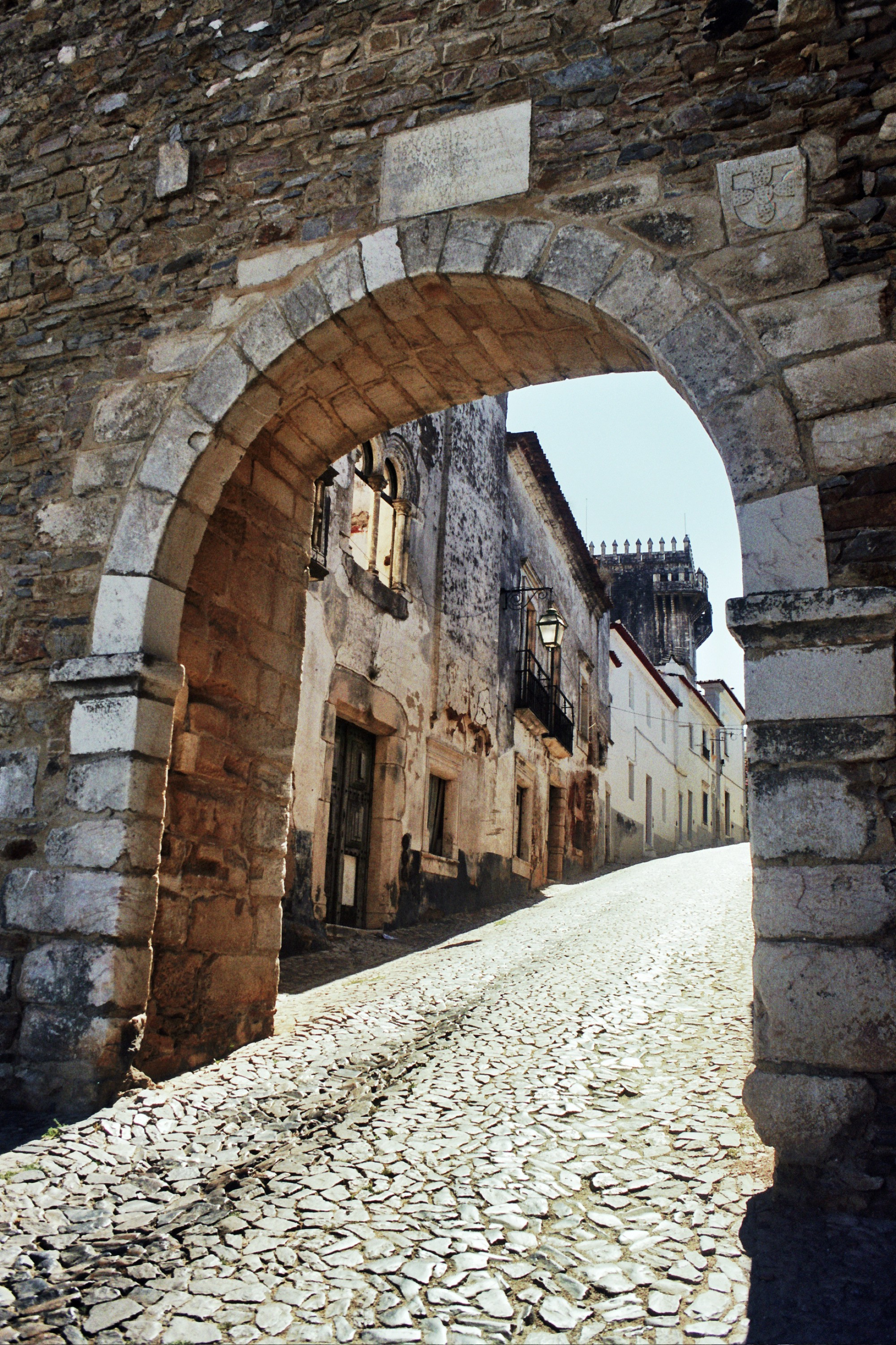 Estremoz